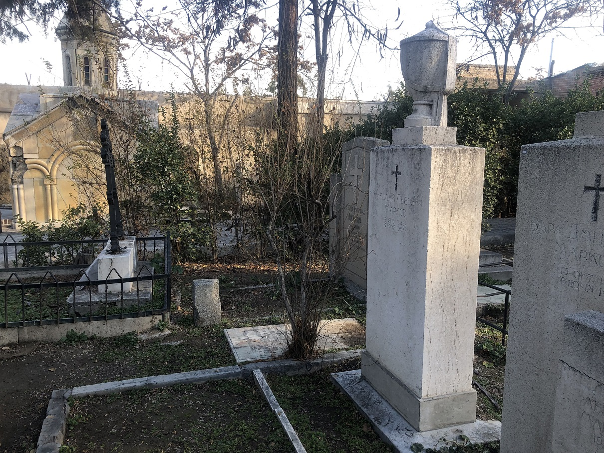 Russian section of Doulab Cemetery